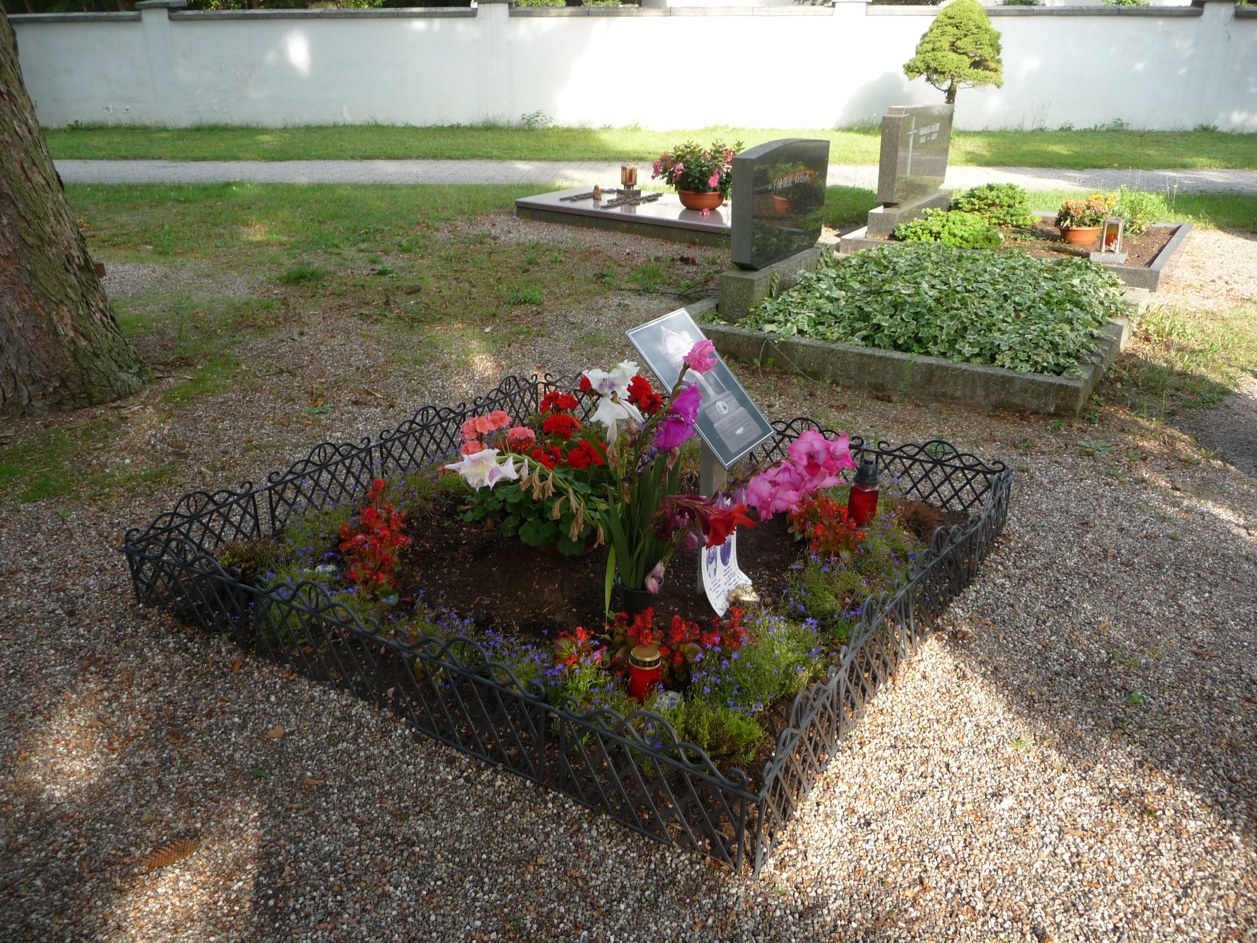 Germersheim